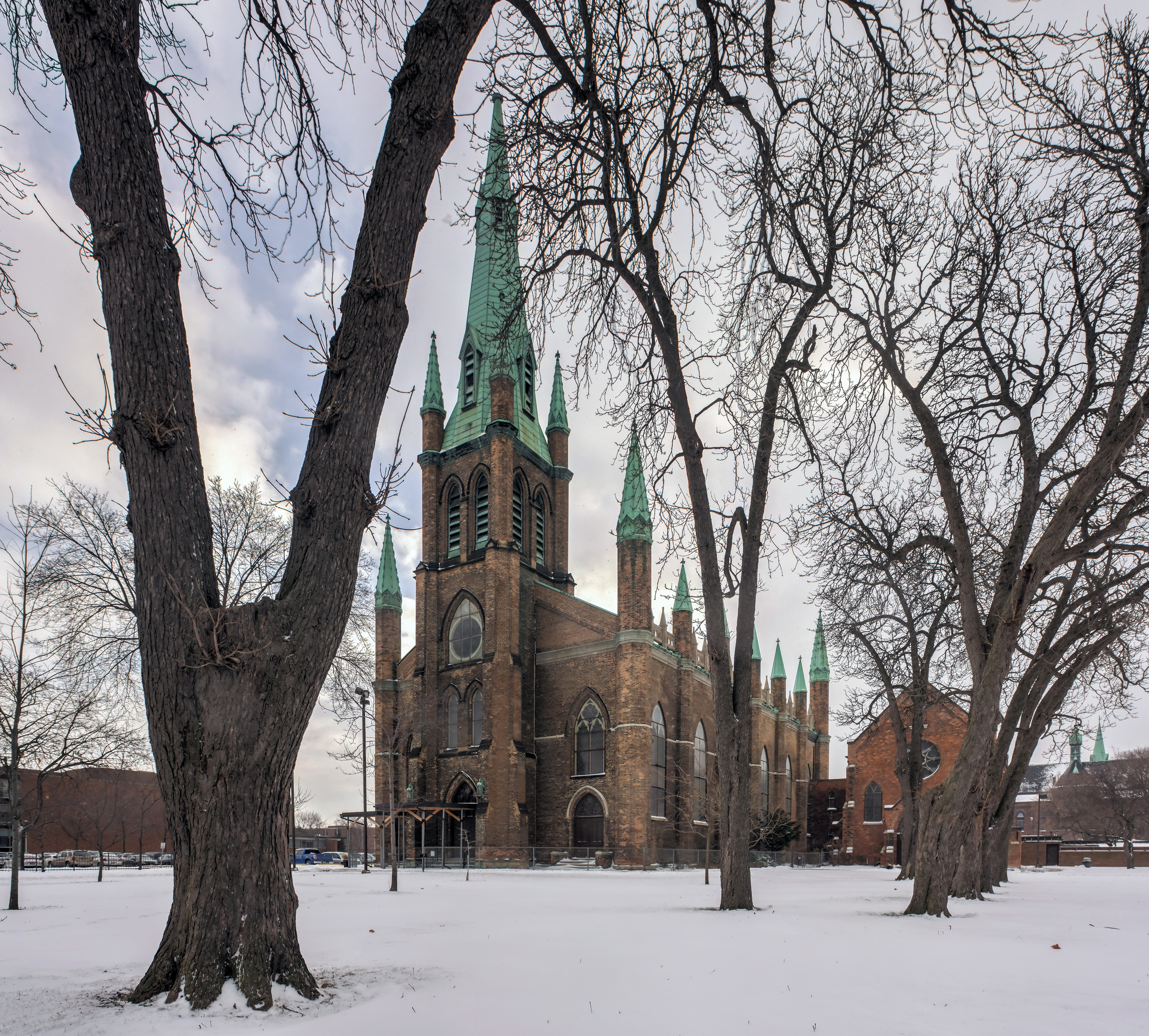 Exterior (Full Church), Our Lady of the Assumption, Windsor, Ontario